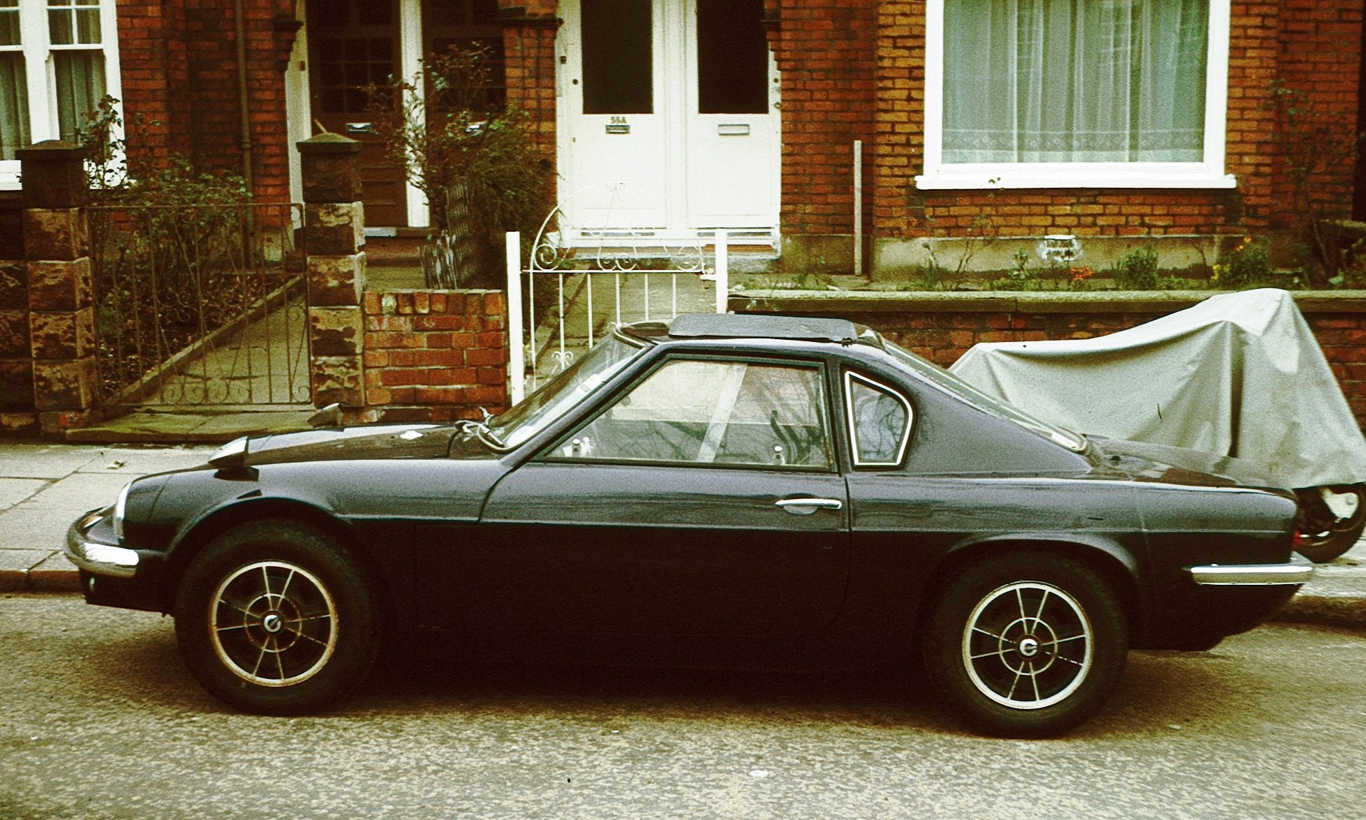 Ginetta G15 in black in England